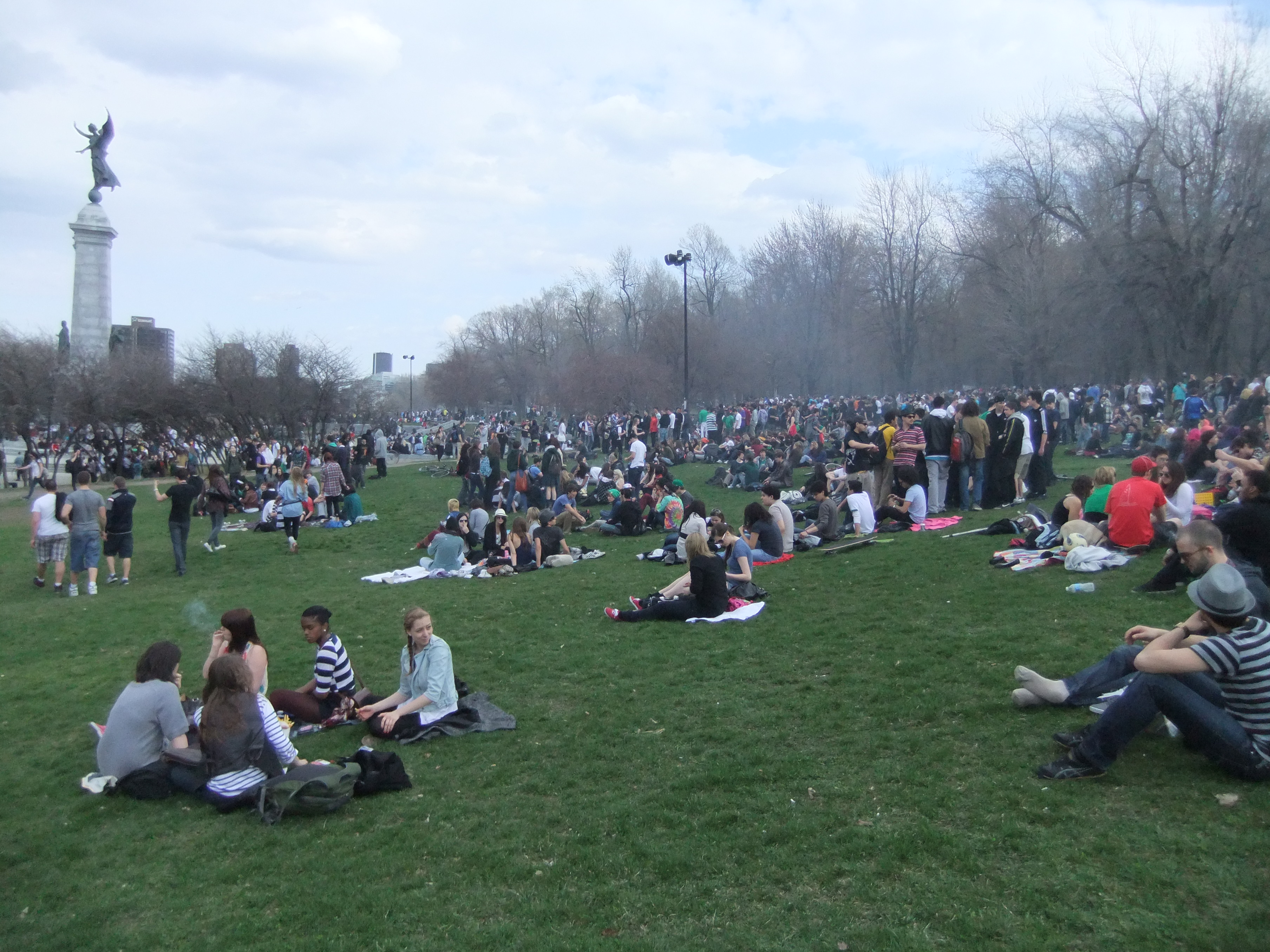 The four-twenty event at Montreal, 2010, on the Mont-Royal, face à l'avenue du Parc. (Of course, on April 20th at 4:20 pm...!)